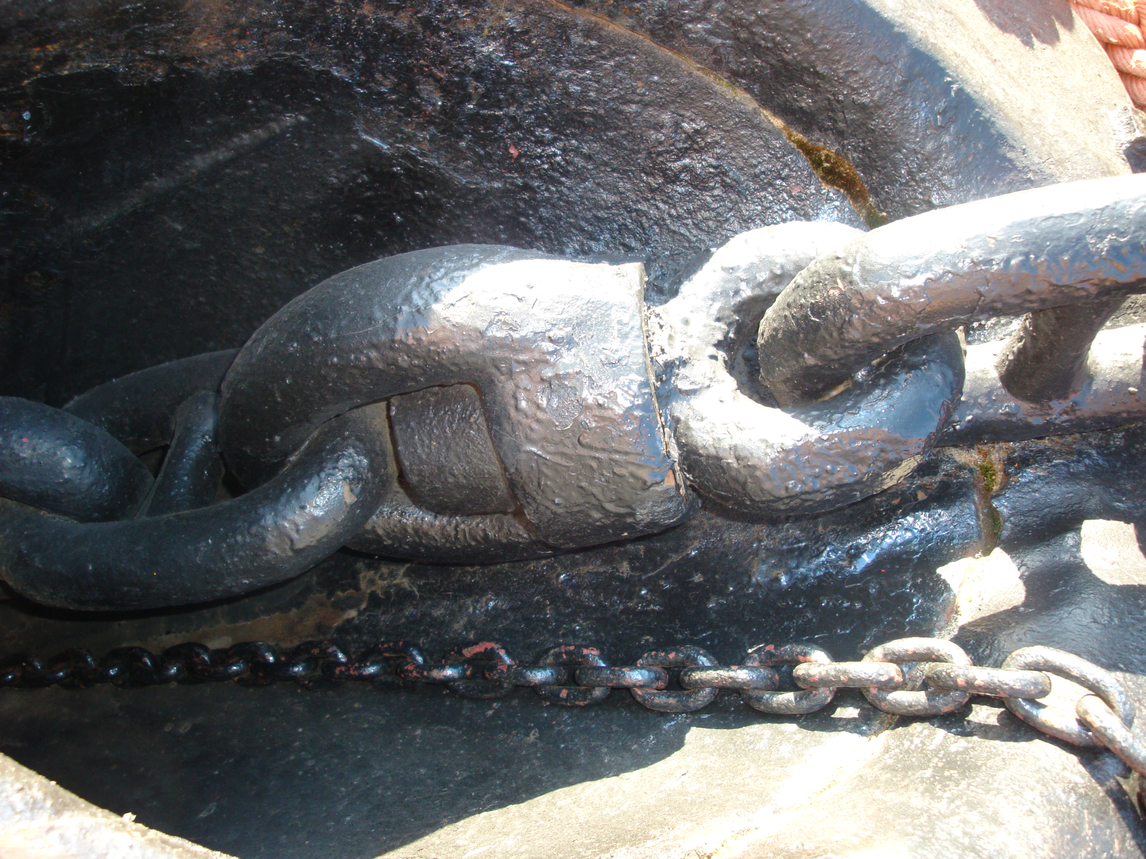 Museal ship S/S Sołdek in Gdańsk, Poland